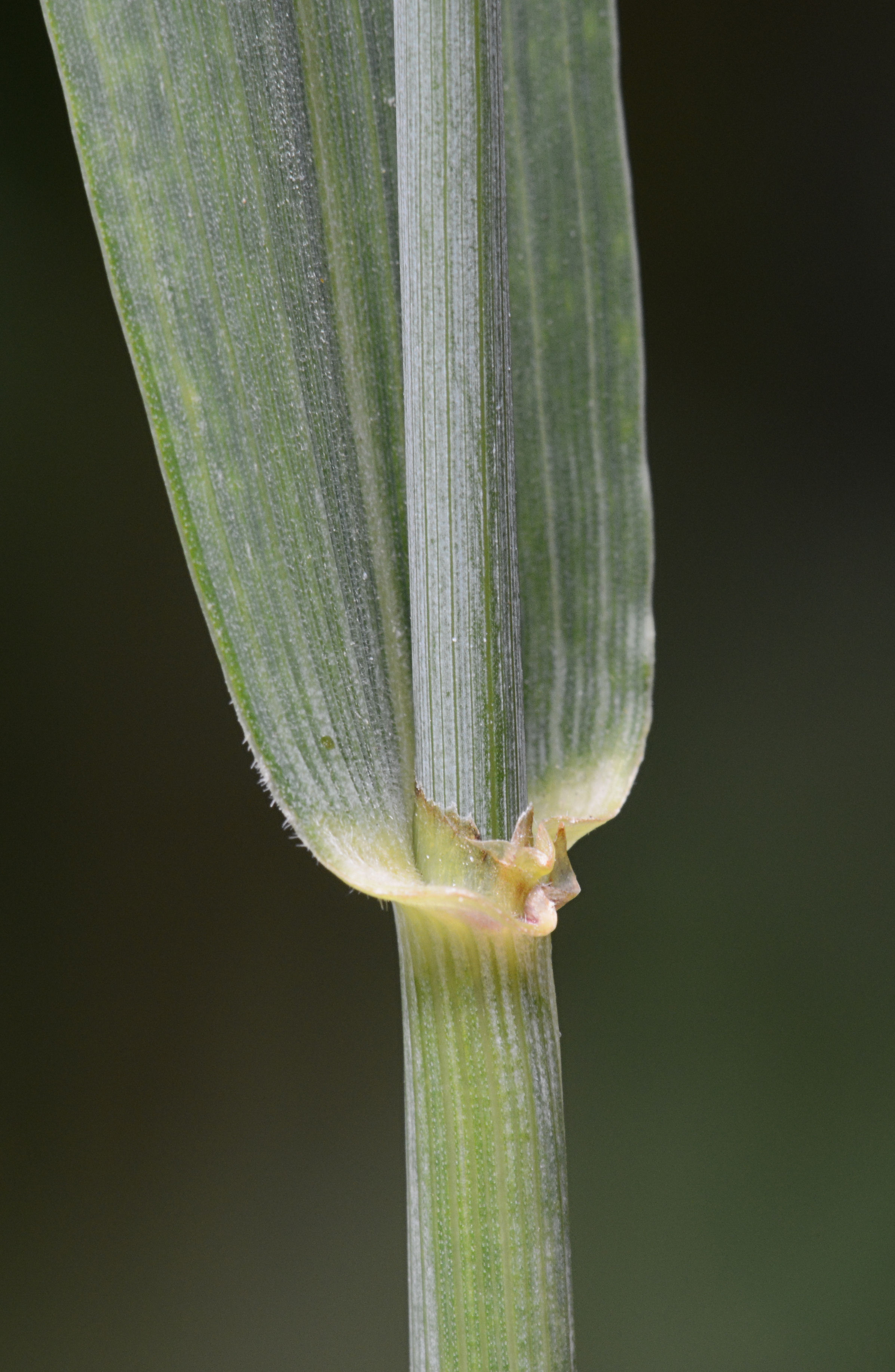 Triticum dicoccum 'bruinkafemmertarwe'